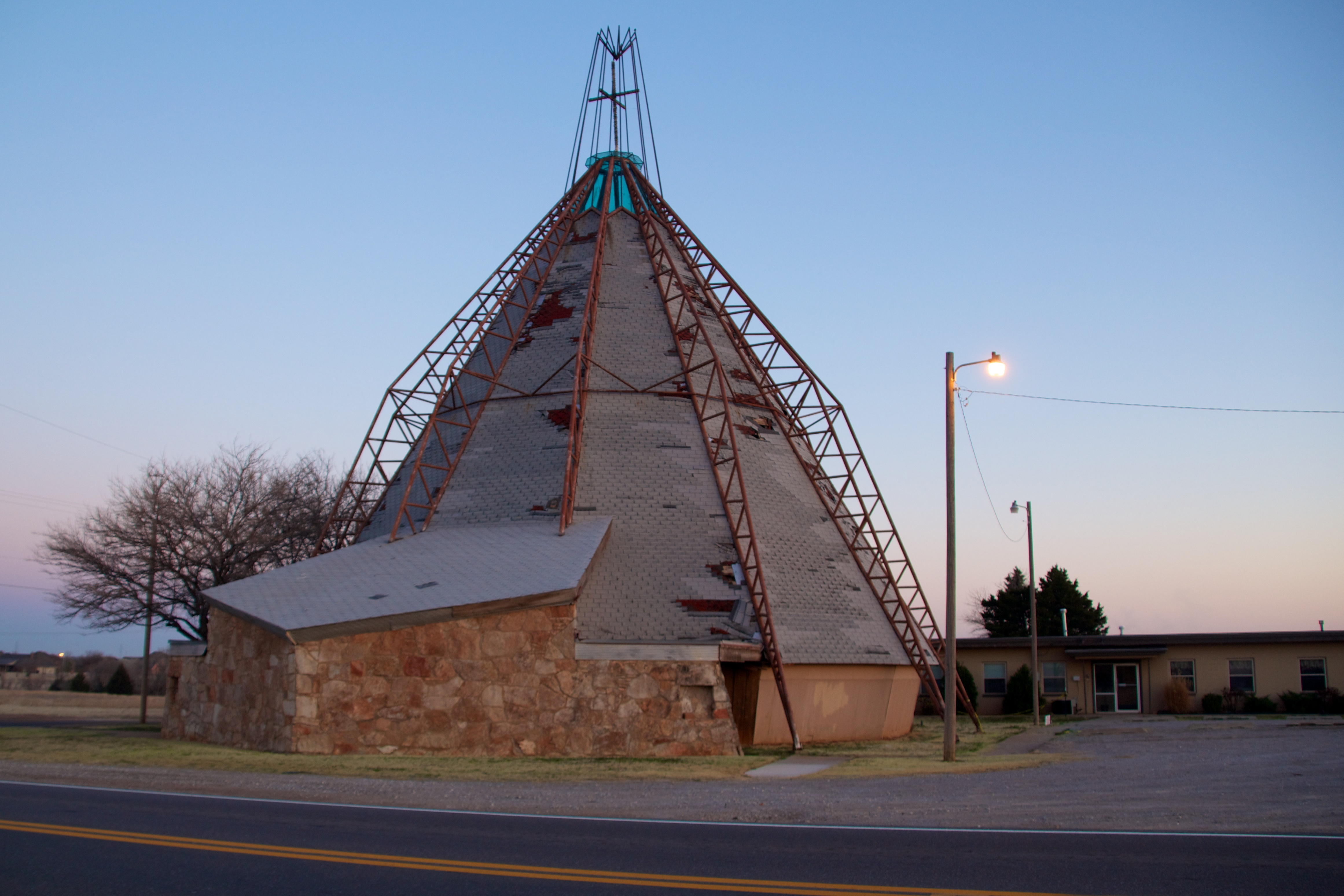 Hopewell Baptist Church at sunrise.